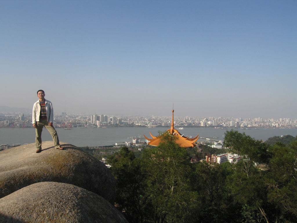 Shantou, China